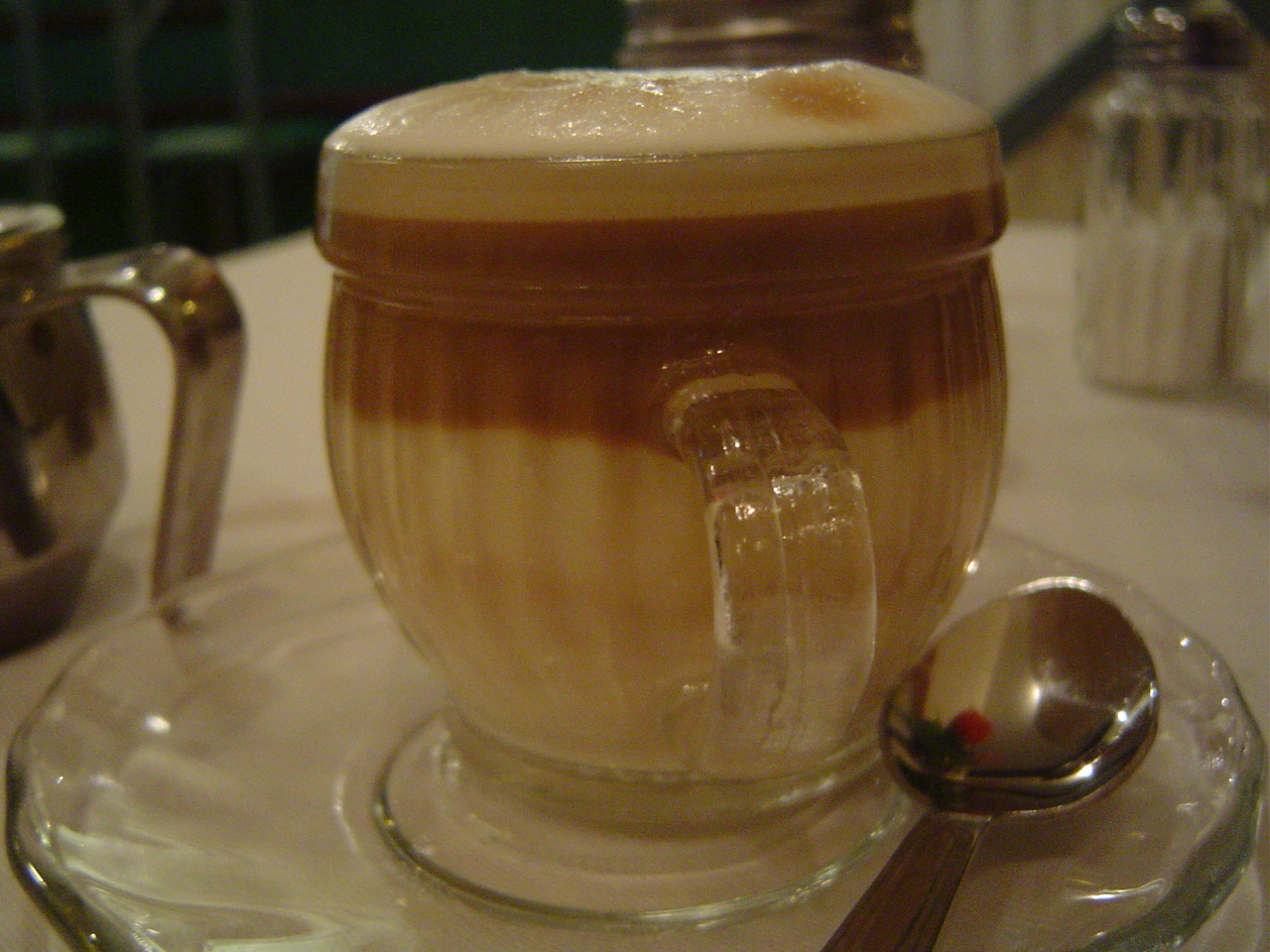 A picture of a cup of macchiato served in Addis Ababa, Ethiopia.